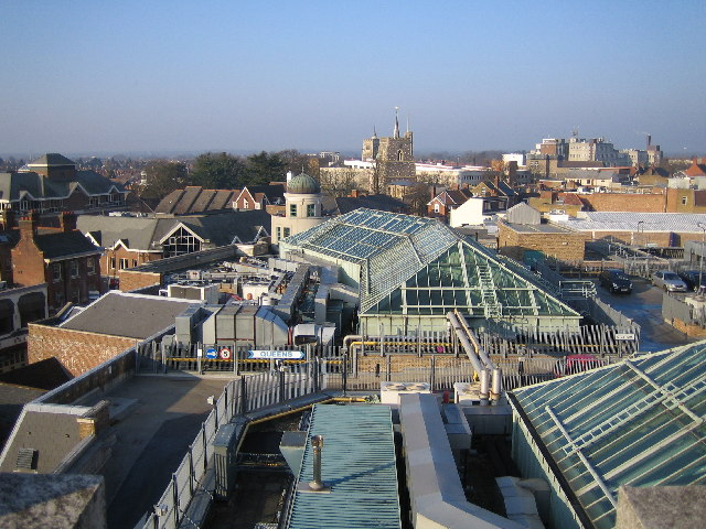 Watford: Town centre roofscape. The tower of St Mary's Church 115177 is visible with the tower of the Holy Rood Church 116654 beyond and just to the left, viewed looking westwards from The Harlequin Shopping Centre roof top car park.